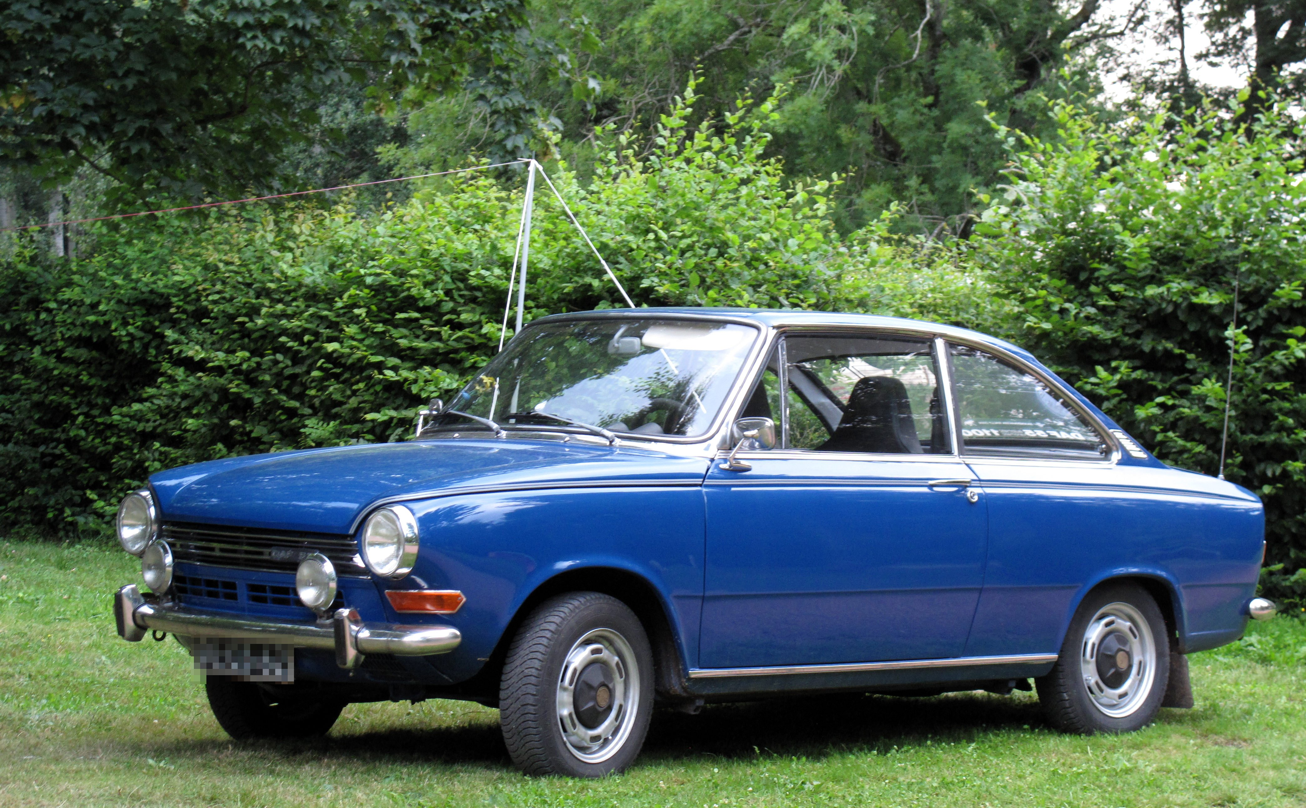 DAF 55 coupé car